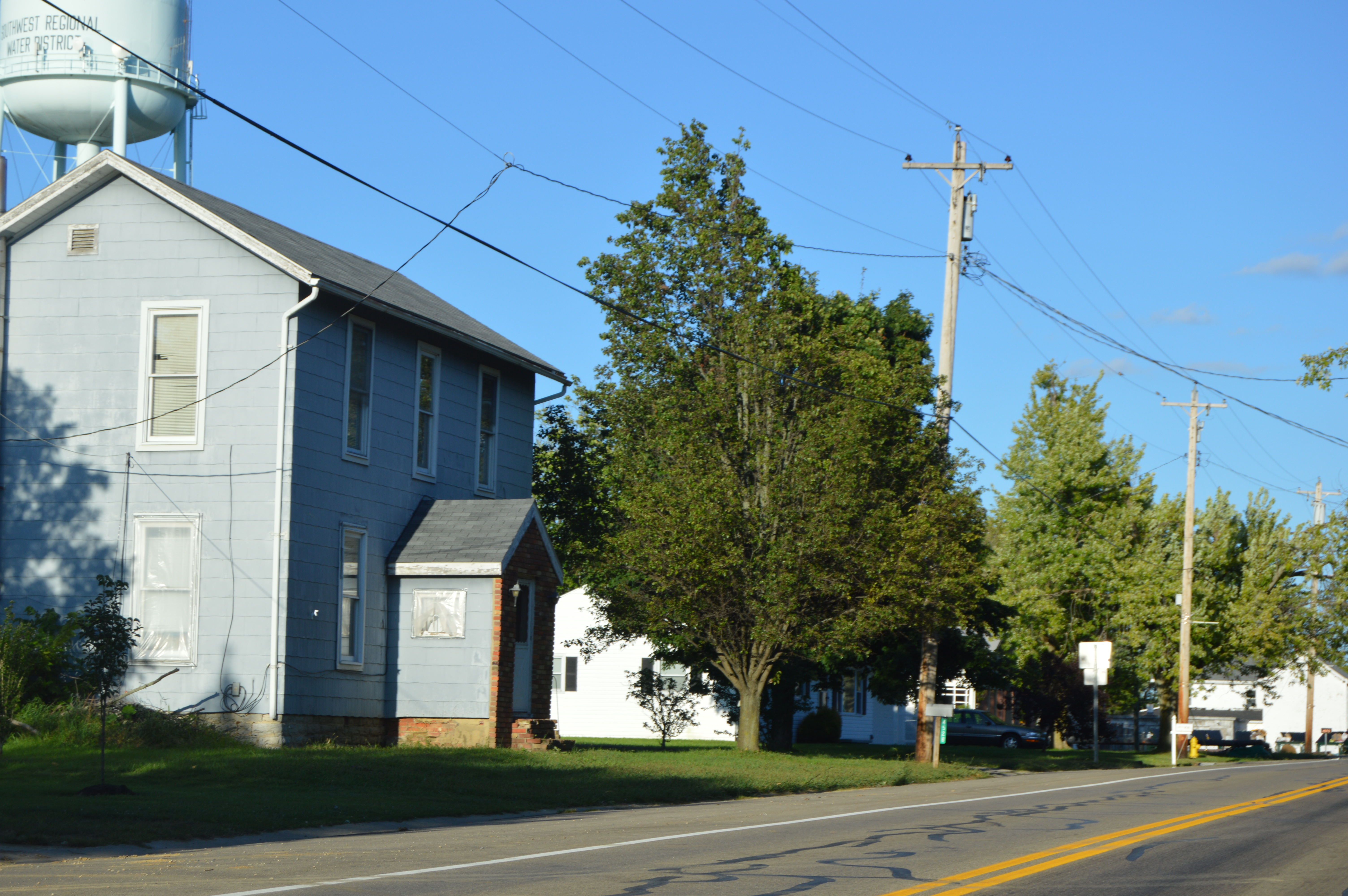 Houses on the northern side of State Route 744 at the western edge of Jacksonburg, Ohio, United States.